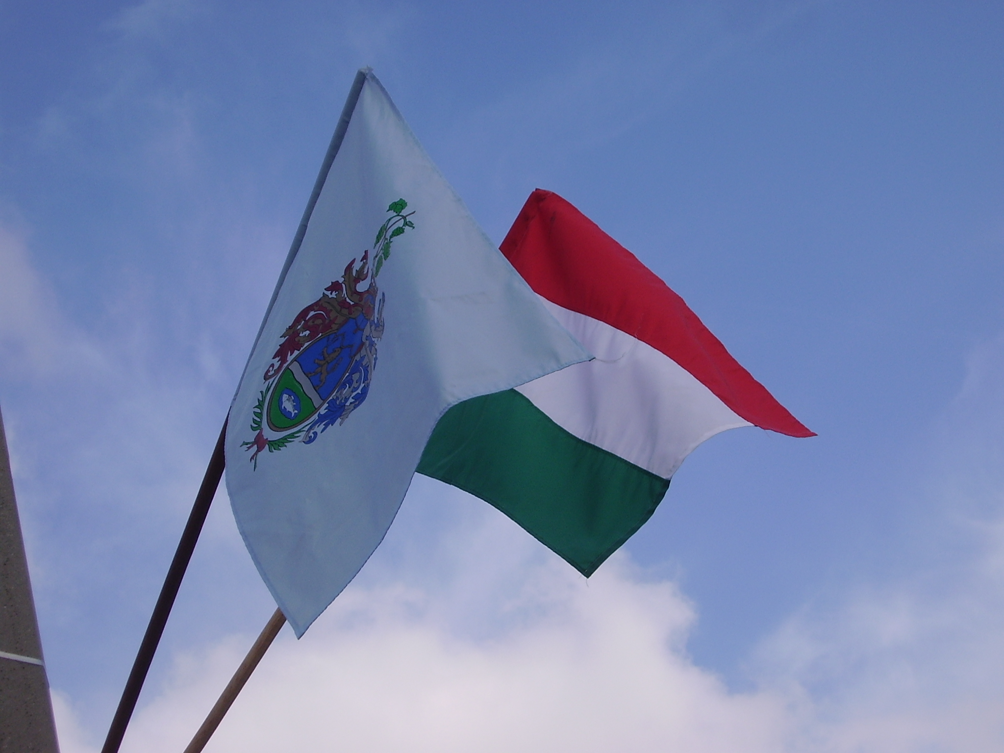 Flags of the city Békéscsaba and Hungary